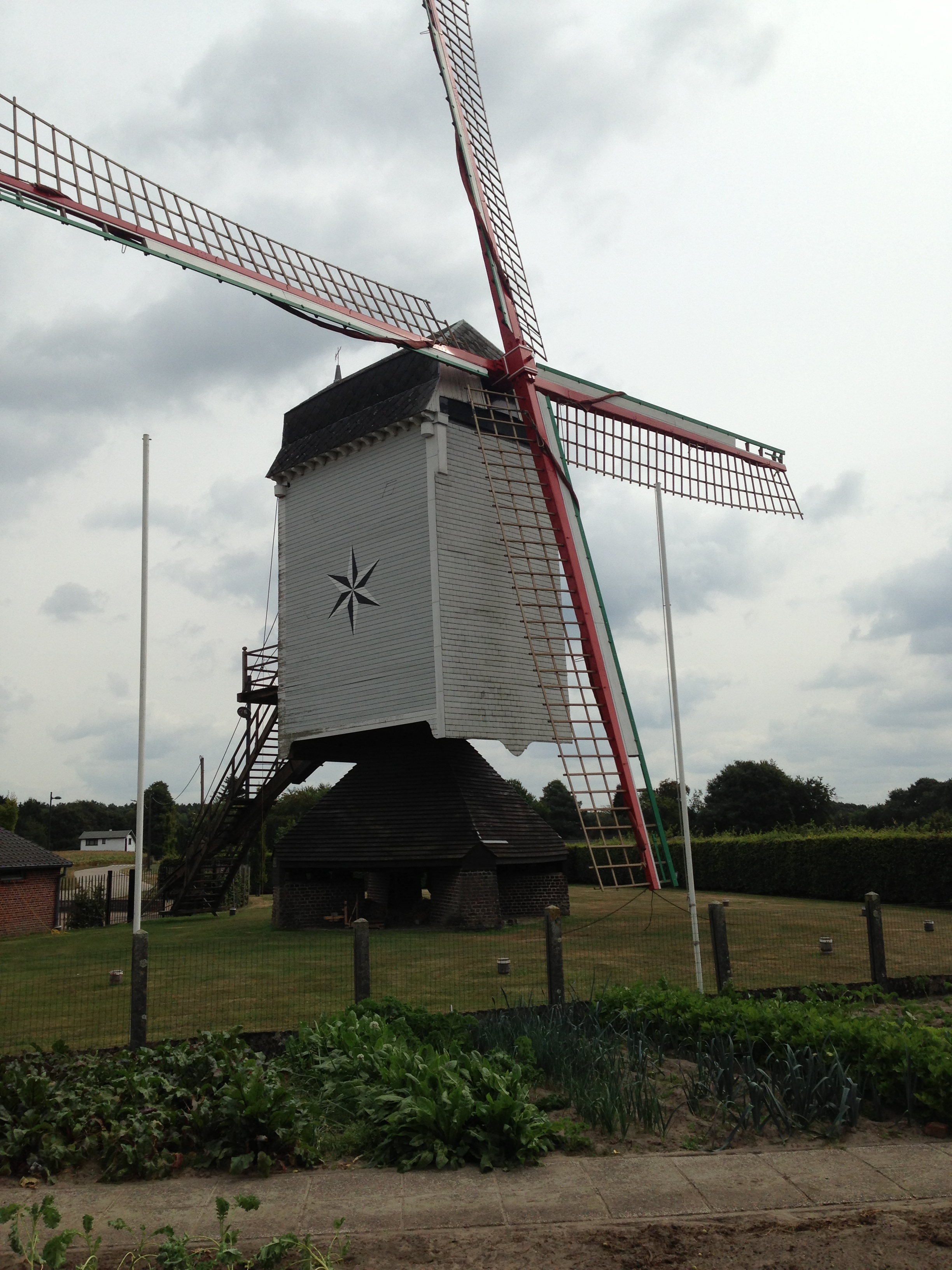 The Star Mill (Stermolen) at Eksel - fully restored and in function on the second saturday and fourth sunday of each month.